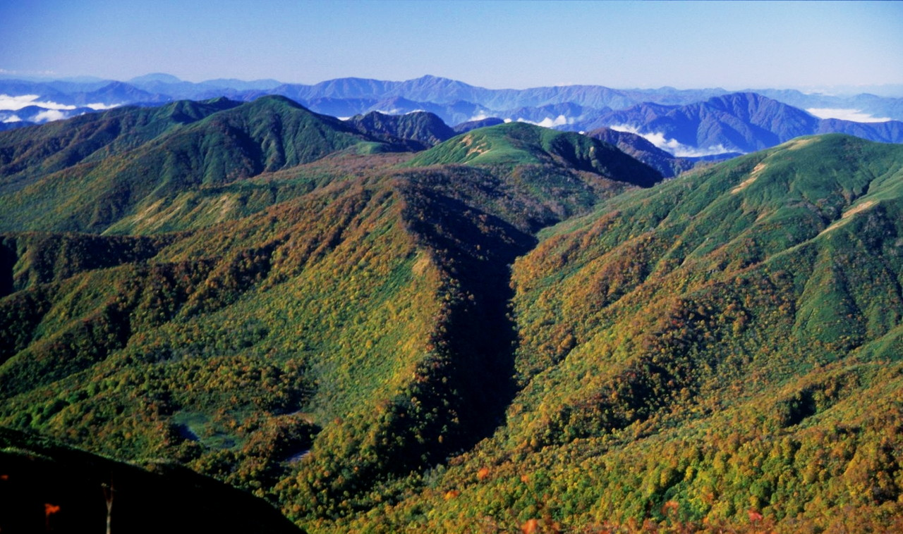 Mount Nobse seen from_Mount Chōshi in Ryohaku Mountains, Japan.